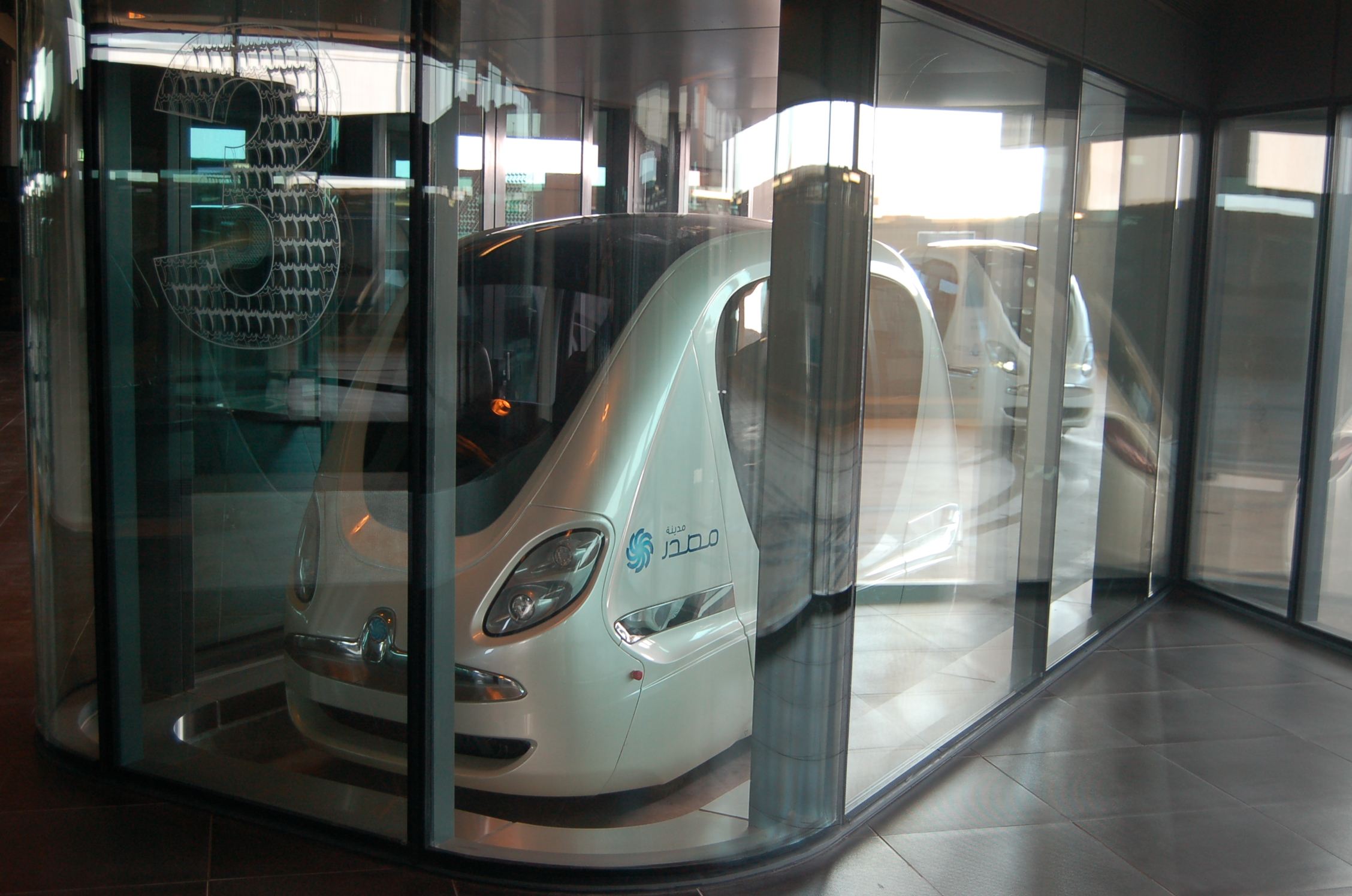 Podcar at a personal rapid transit (PRT) station in Masdar City